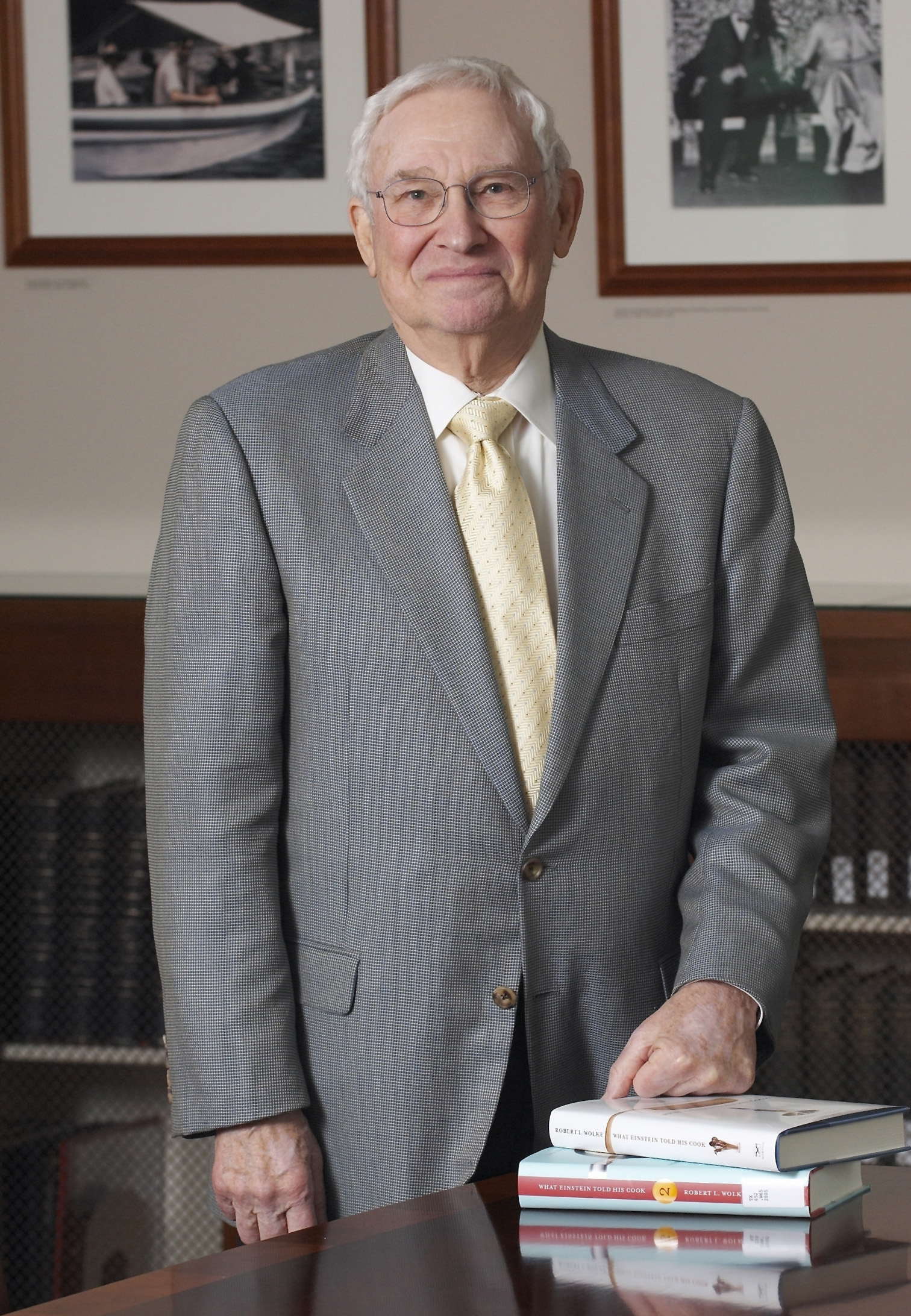 Photograph of chemist Robert Wolke, taken at the 2006 Book and the Cook event at the Chemical Heritage Foundation, Philadelphia, PA, USA, 24 March 2006.